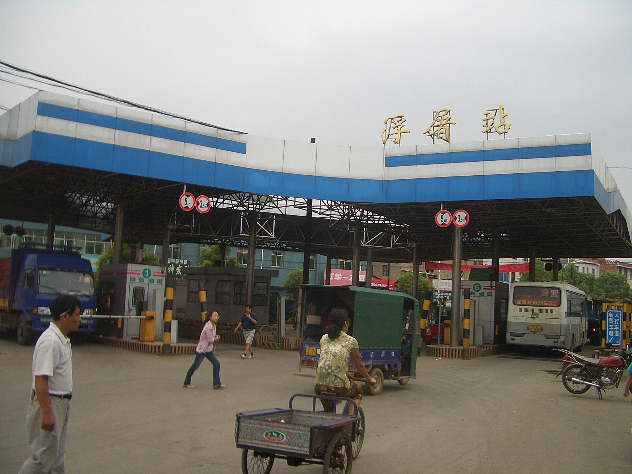 A toll plaza on G106/G316 in the center of Futu! (Yangxin County, Hubei).